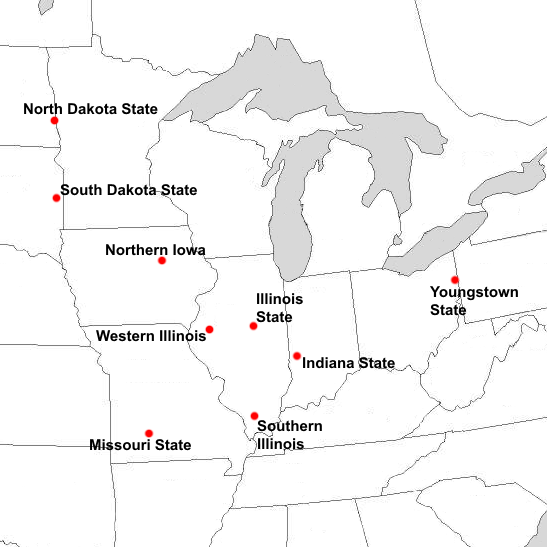 Locations of Missouri Valley Football Conference full member institutions. Personal creation in Photoshop; All rights released to the public to do whatever they want with it.